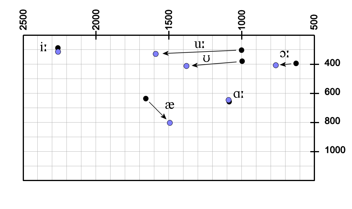 A comparison of the formant values of /iː æ ɑː ɔː ʊ uː/ for speakers older than 65 (black) and those between 18 and 25 (light blue) of RP.